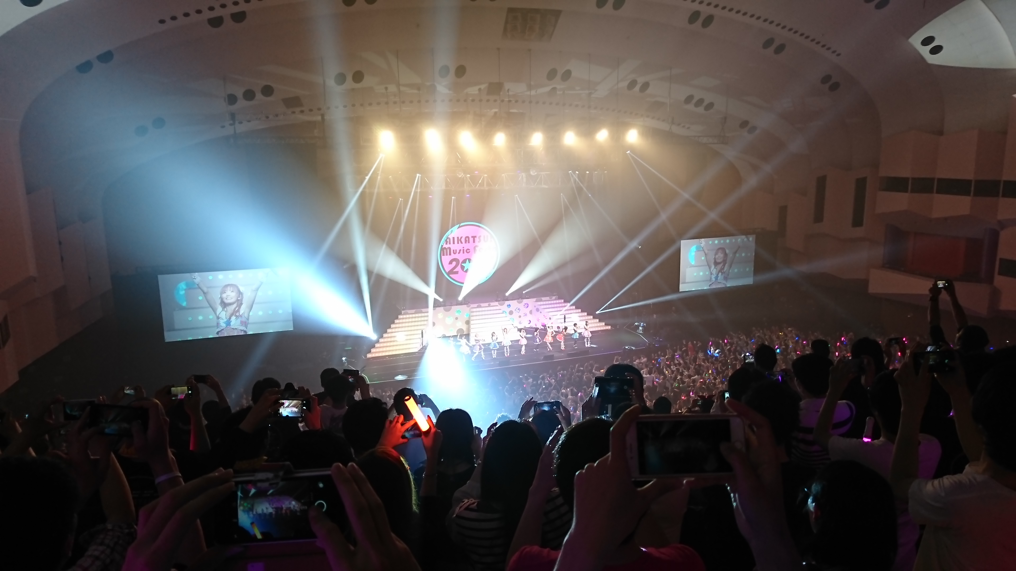 Aikatsu! Music Festa held at National Convention Hall in Pacifico Yokohama. This photo was taken during the performance on 26 March 2017 (the 2nd day of the event). The participants for this event were specially allowed to photograph the performers only during certain minutes. Waka, a member of STAR☆ANIS that is a Japanese idol group appears on the big screens.